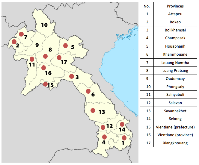 Areas of ALC activities in Laos